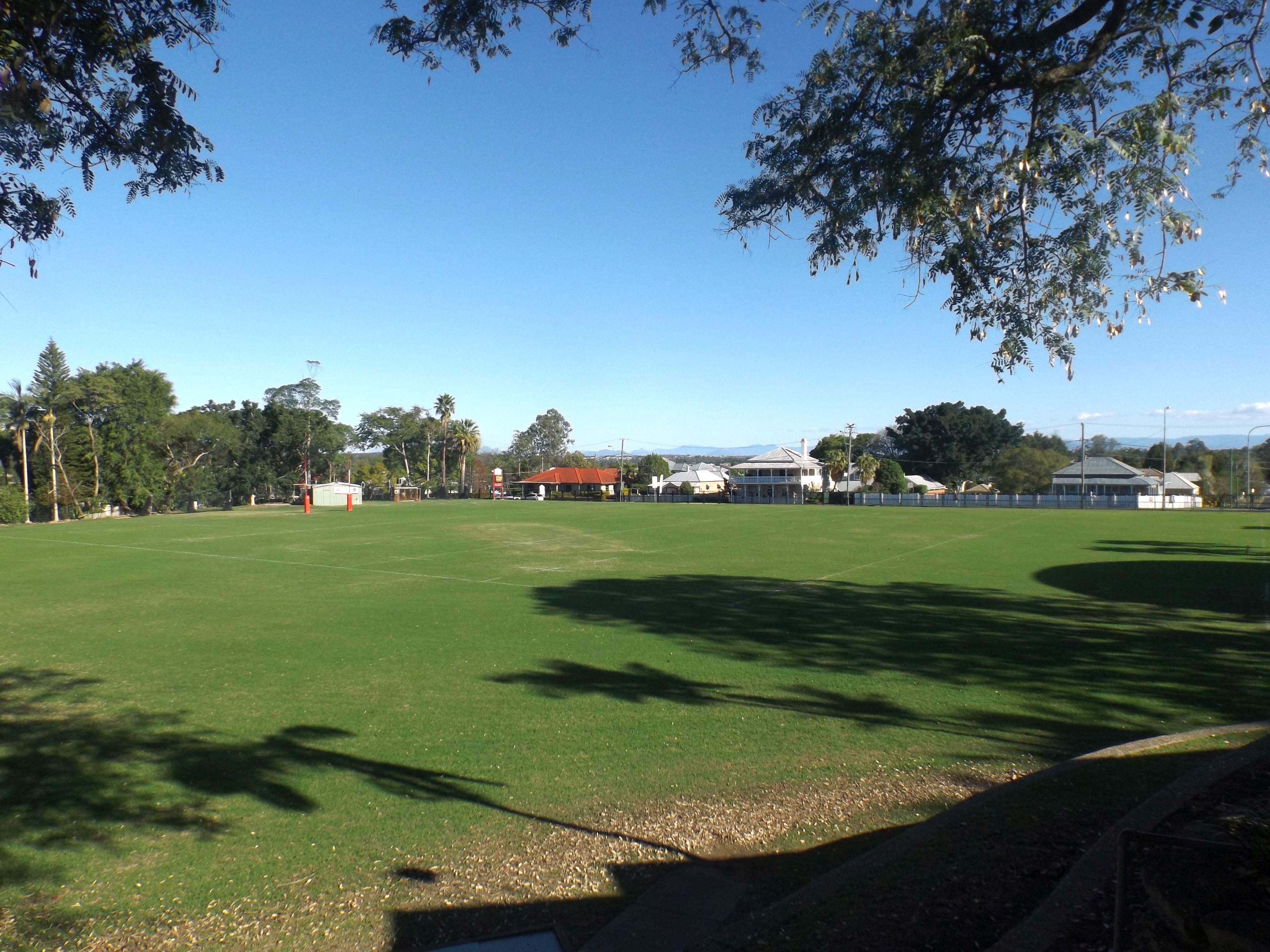 Photo of the sports oval at Ipswich Grammar School in Woodend, Ipswich, Queensland, Australia.